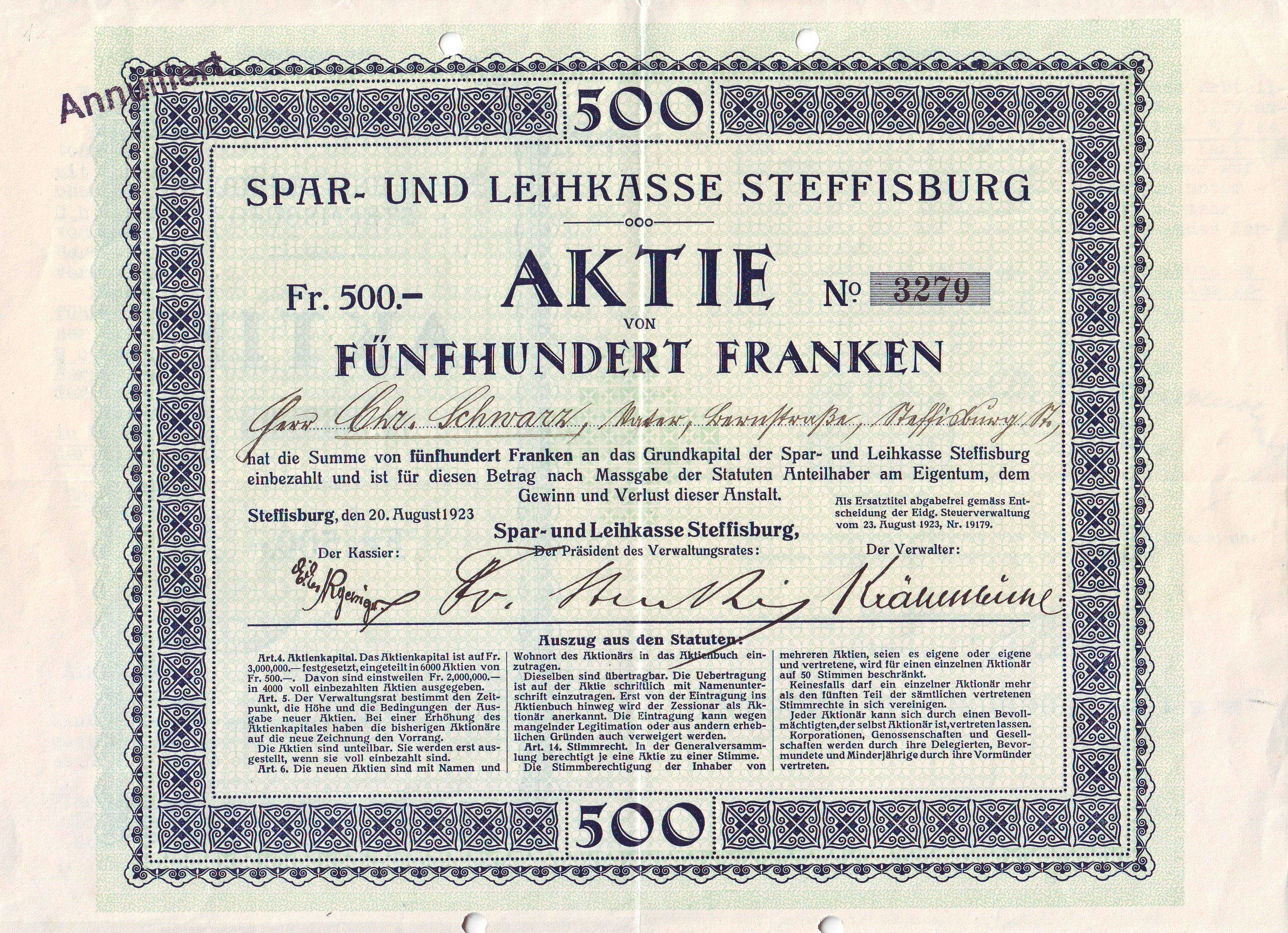 Share of the Spar- und Leihkasse Steffisburg, issued 20. August 1923